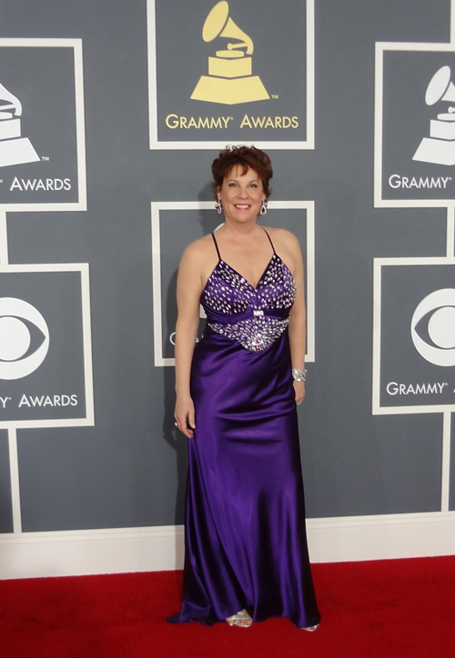 Musician Miss Amy